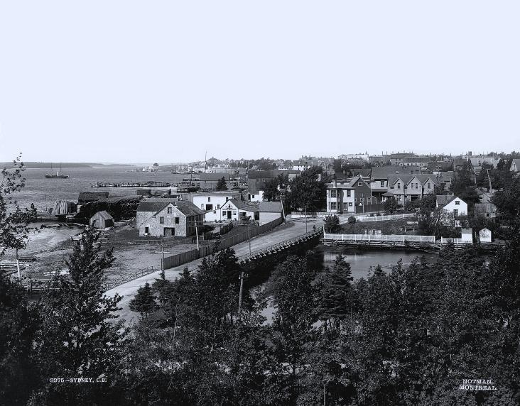 Photograph, Sydney, Cape Breton, NS, 1901, Wm. Notman & Son, Silver salts on glass - Gelatin dry plate process - 20 x 25 cm. The photograph is believed to have been taken prior to the great fire of October of that year.